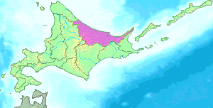 Okhotsk shinkokyoku subpref